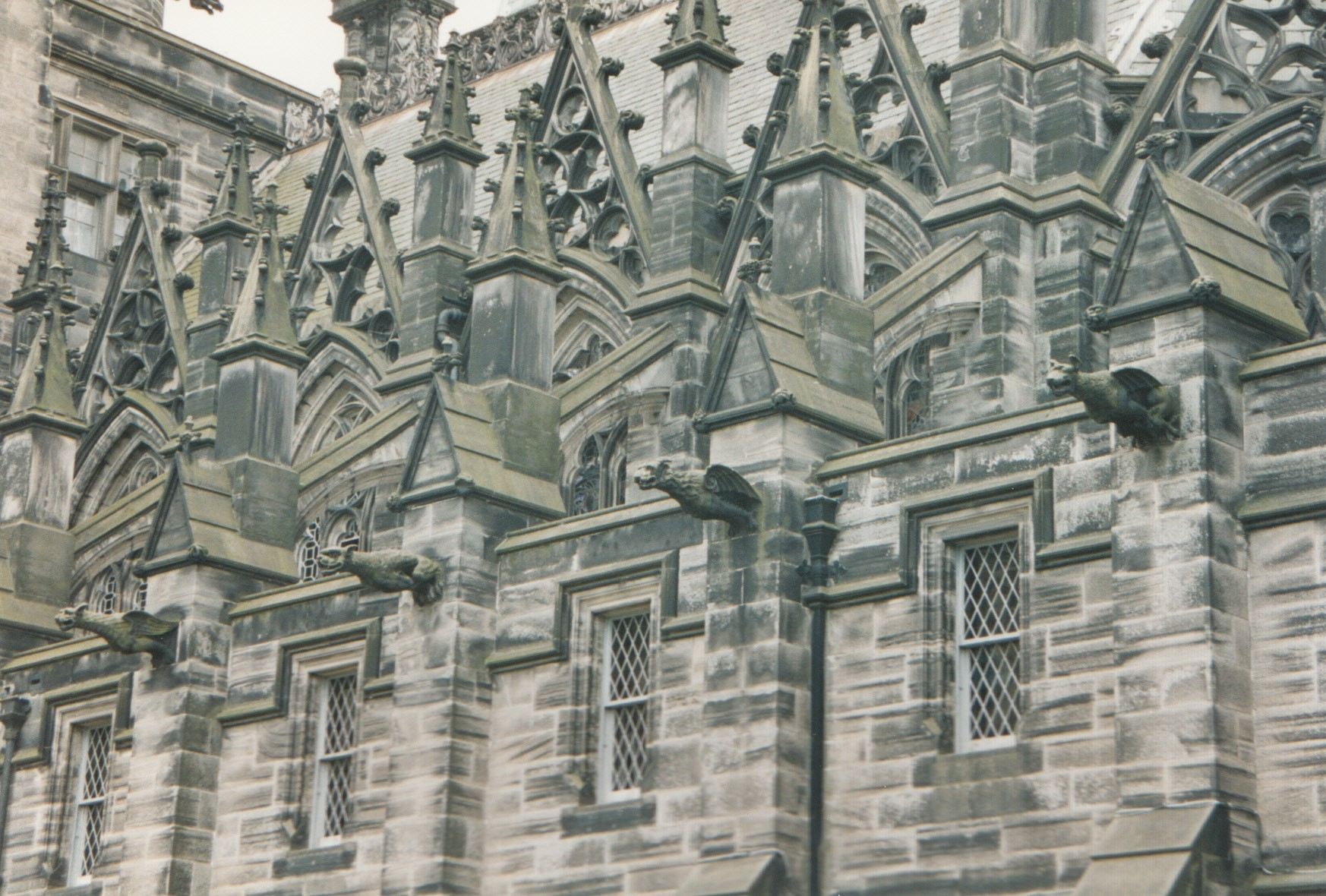 Part of Fettes College Chapel designed by David Bryce